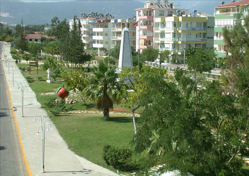 Finik Orange